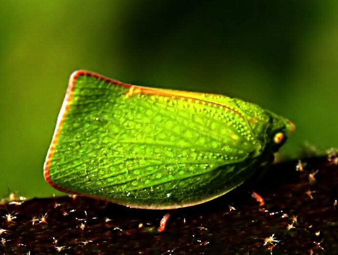 Insect Planthopper, Siphanta acuta mimics a leaf